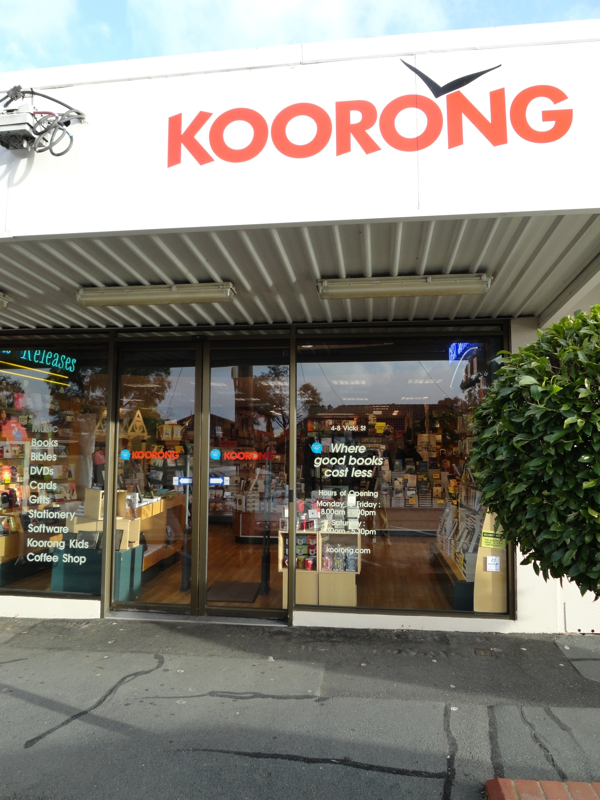 Shop front of Koorong book store, Blackburn, Victoria